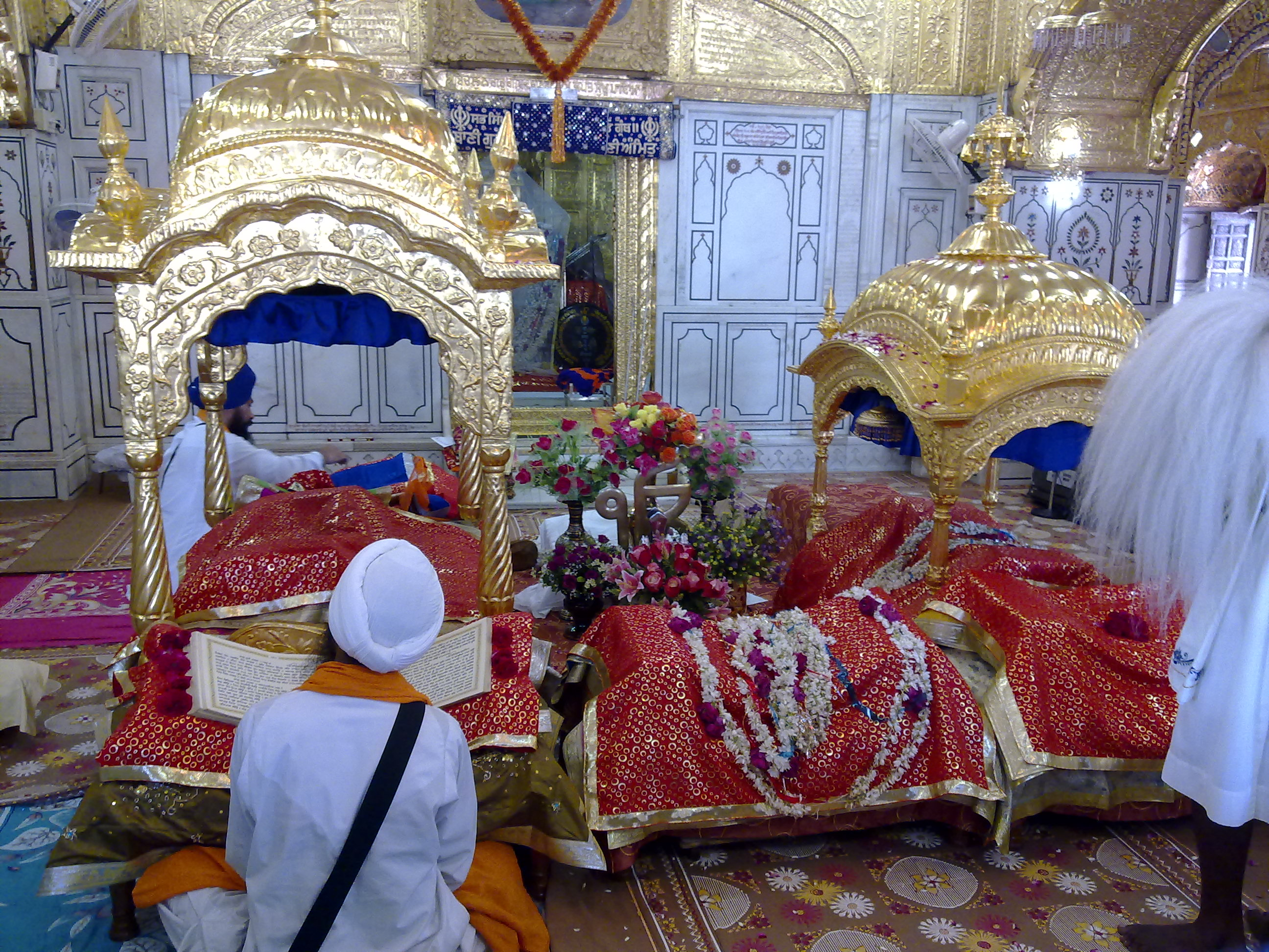 Inetrior of Hazur Sahib